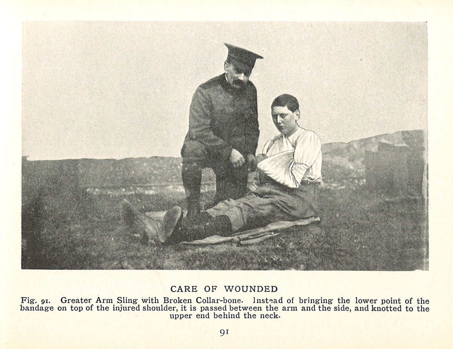 The Stretcher Bearer: A Companion to the R.A.M.C. Training Book, Illustrating the Stretcher-Bearer Drill and the Handling and Carrying of Wounded. H. Frowde [etc.], London, 1915.